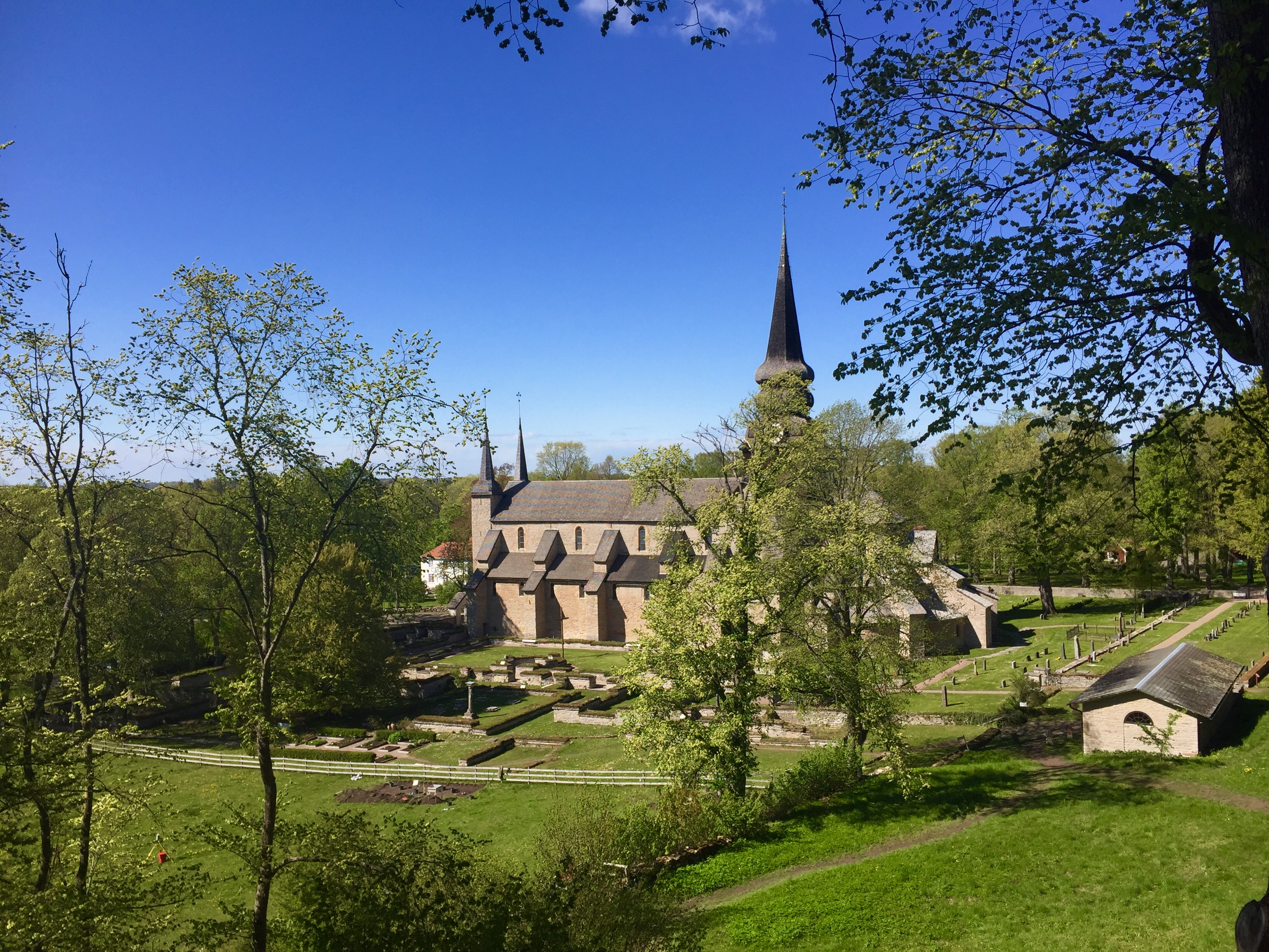 View of Varnhems klosterkyrka from Kata